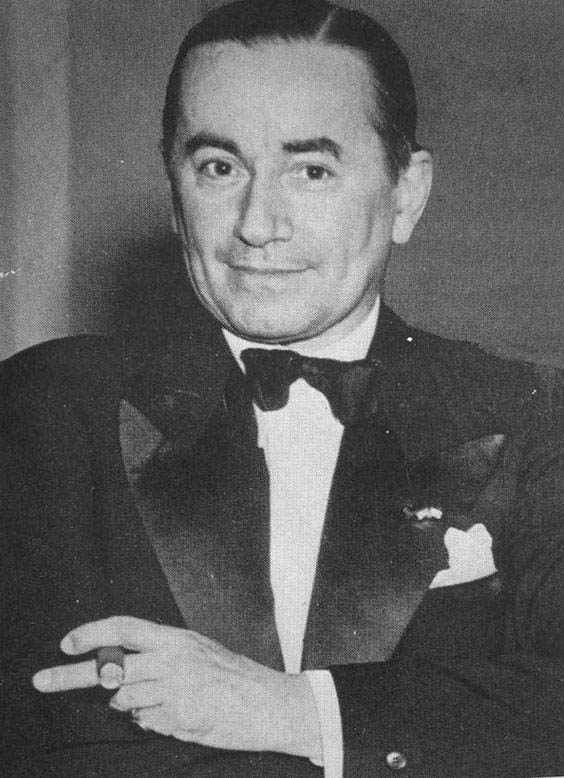 Portrait of Florencio Molina Campos.